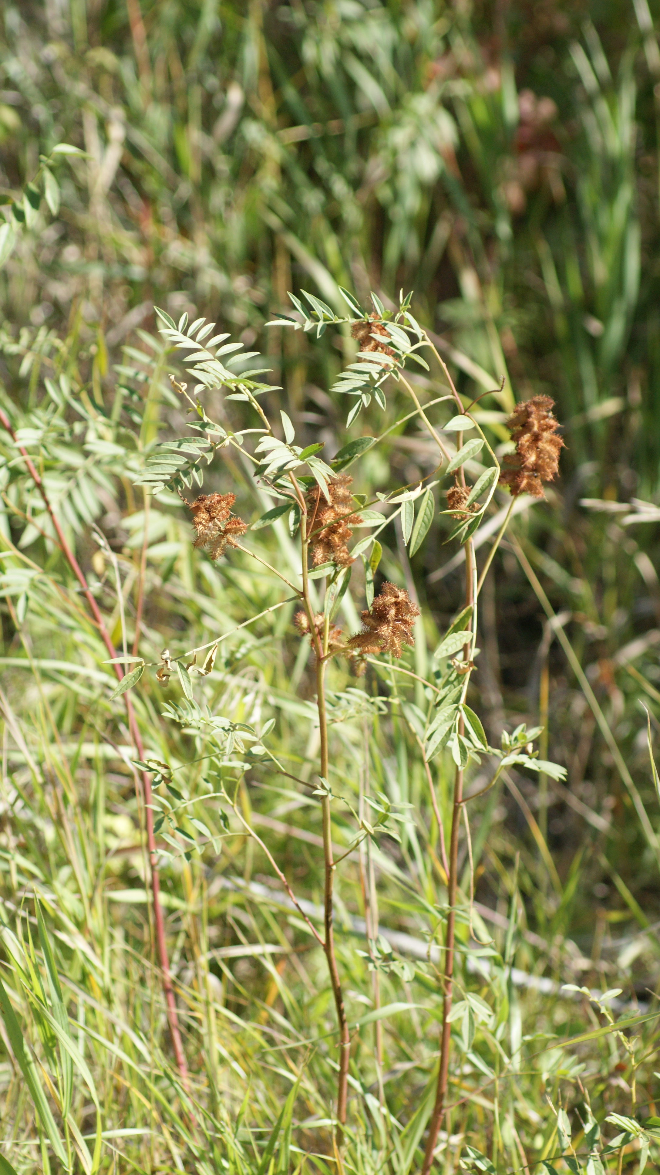 Plant which grows in abundance along the sandy shorelines near the forest edge of the South Saskatchewan River near Saskatoon Saskatchewan Bears burrs in the autumn which the puppy dogs take with them in the off leash dog parks :-) American Licorice or Wild licorice (Glycyrrhiza lepidota) Kershaw, Linda (2003) Saskatchewan Wayside Wildflowers, Edmonton, Alberta: Lone Pine Publishing, pp. 49 ISBN: 1-55105-354-3. Vance, F R (1999) Wildflowers across the prairies With a new section on Grasses, sedges and rushes, Vancouver, British Columbia: Western Producer Prairie Books, pp. 135 ISBN: 1-55054-703-8. Wilkinson, Kathleen (1999) Wildflowers of Alberta A Guideto Common Wildflowers and Other Herbaceous Plants, Edmonton Alberta: Lone Pine Publishing and University of Alberta, pp. 113 ISBN: 0-88864-298-9. Carmichael, Lloyd T (1961) Prairie Wildflowers, Toronto: J.M Dent and sons (Canada) Limited, McCorquodale and Blades (Printers) Ltd, pp. 132 - 133